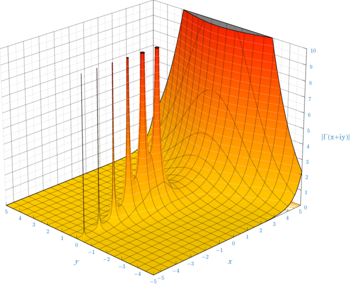 A 3D plot of the absolute value of the Γ function, self-made in Mathematica (prior versions in MuPAD)